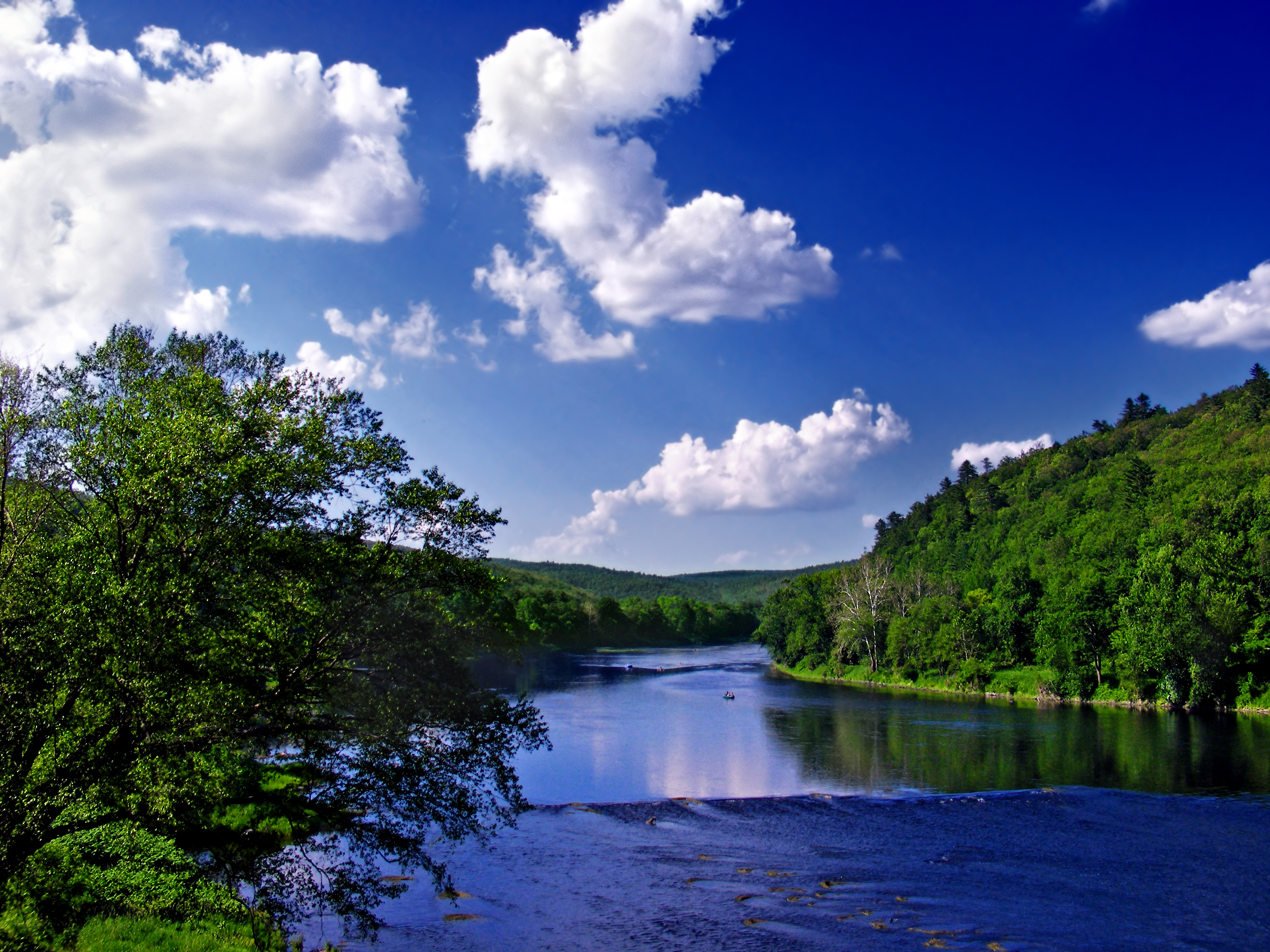 Delaware River, Pike County (Pennsylvania) – Sullivan County (New York) line, as seen from Roebling Bridge.